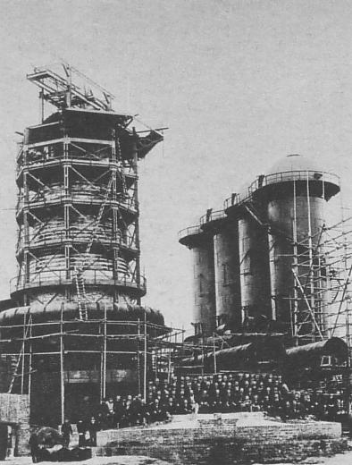 Governmental Yawata Iron & Steel Works